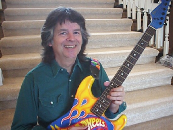 A man named Bob at home in Texas, smiling, shown in front of a staircase, holding an electric guitar.